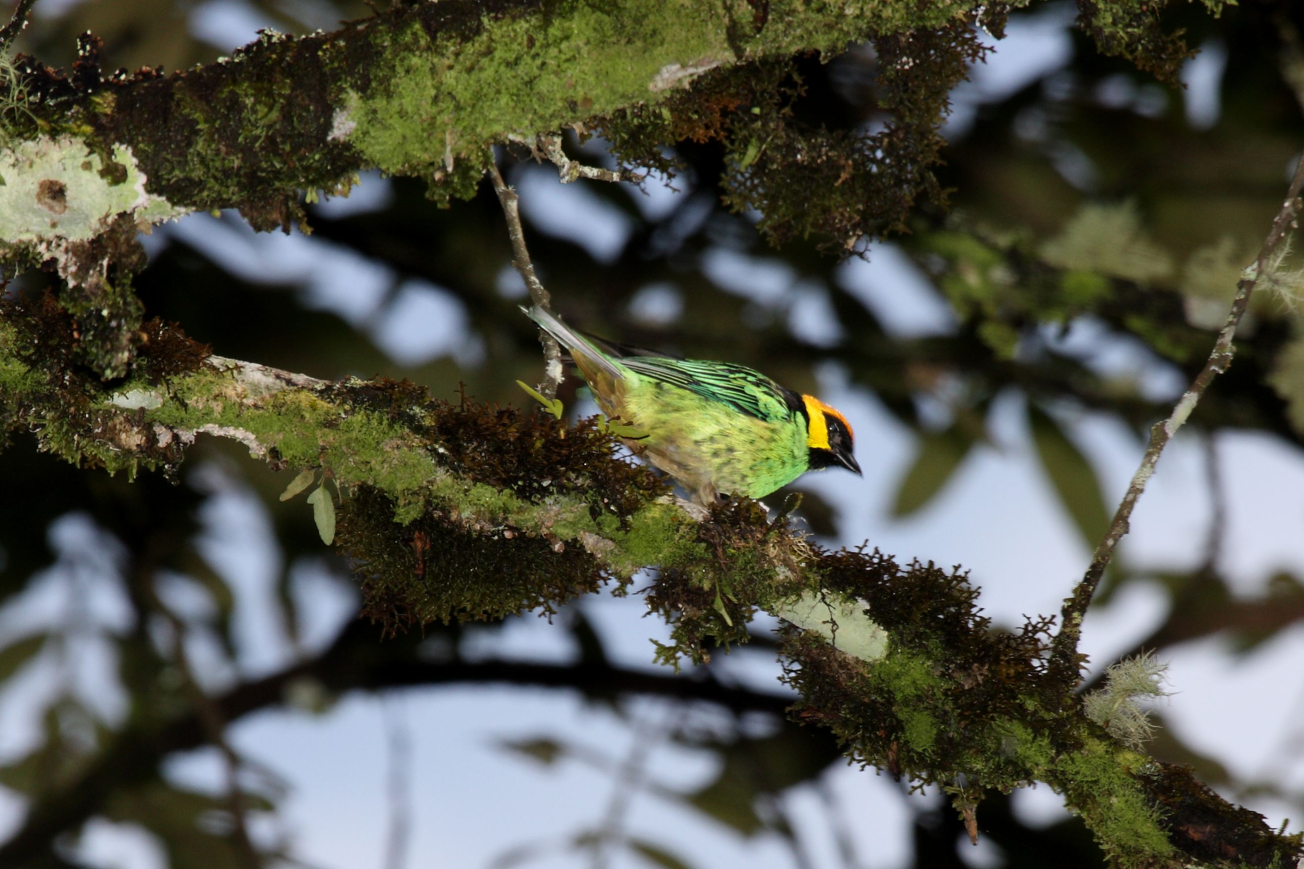 Photographed at Aguas Calientes, Peru.